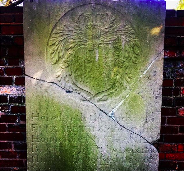 Headstone of Elizabeth Kingsmill, daughter of Richard Kingsmill, wife of first William Tayloe (the planter), then Nathaniel Bacon uncle of the Rebel at St Paul's Norfolk. Remains presumed to be still at the original site in York Co. Virginia. Blazon of arms: Parti per pale: 1. Vert a sword erect Or between two lions rampant addorsed Ermine (for Tayloe); 2. Argent semée of cross-crosslets fitchée Sable, a chevron Ermine between three millrinds of the second a chief Ermine (for Kingsmill).